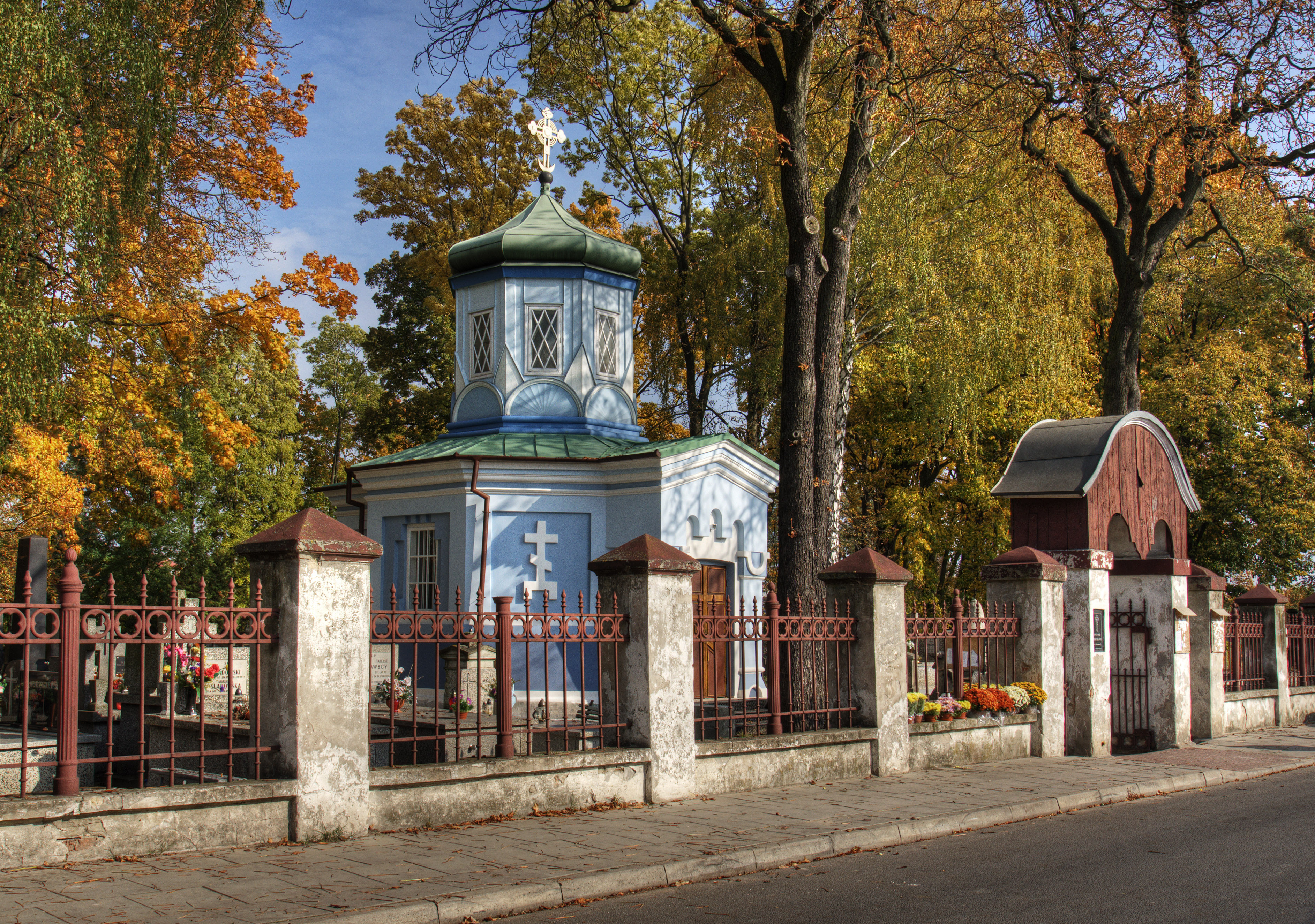 Orthodox cemetery in Płock